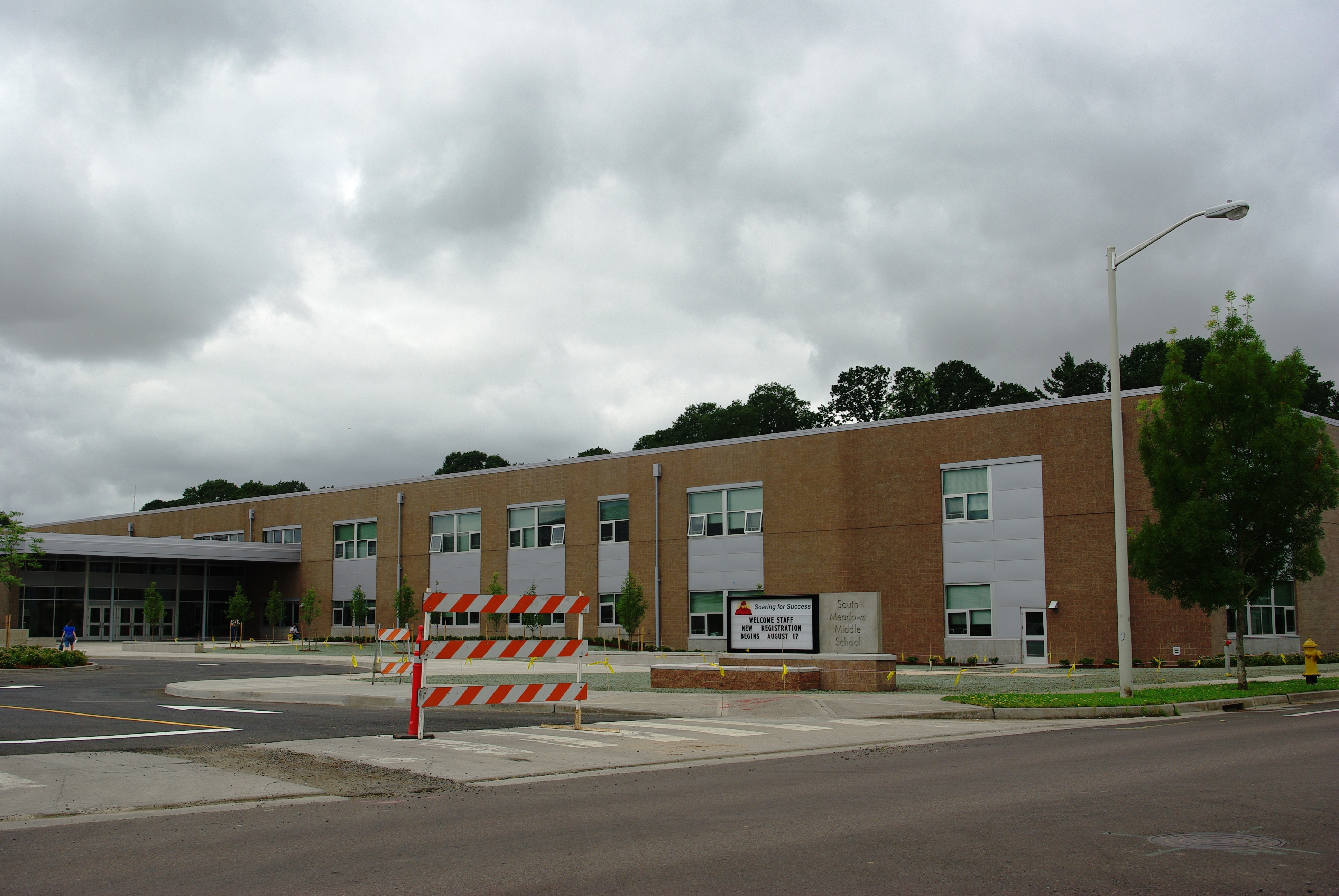 South Meadows Middle School in the Hillsboro School District, Oregon, USA.